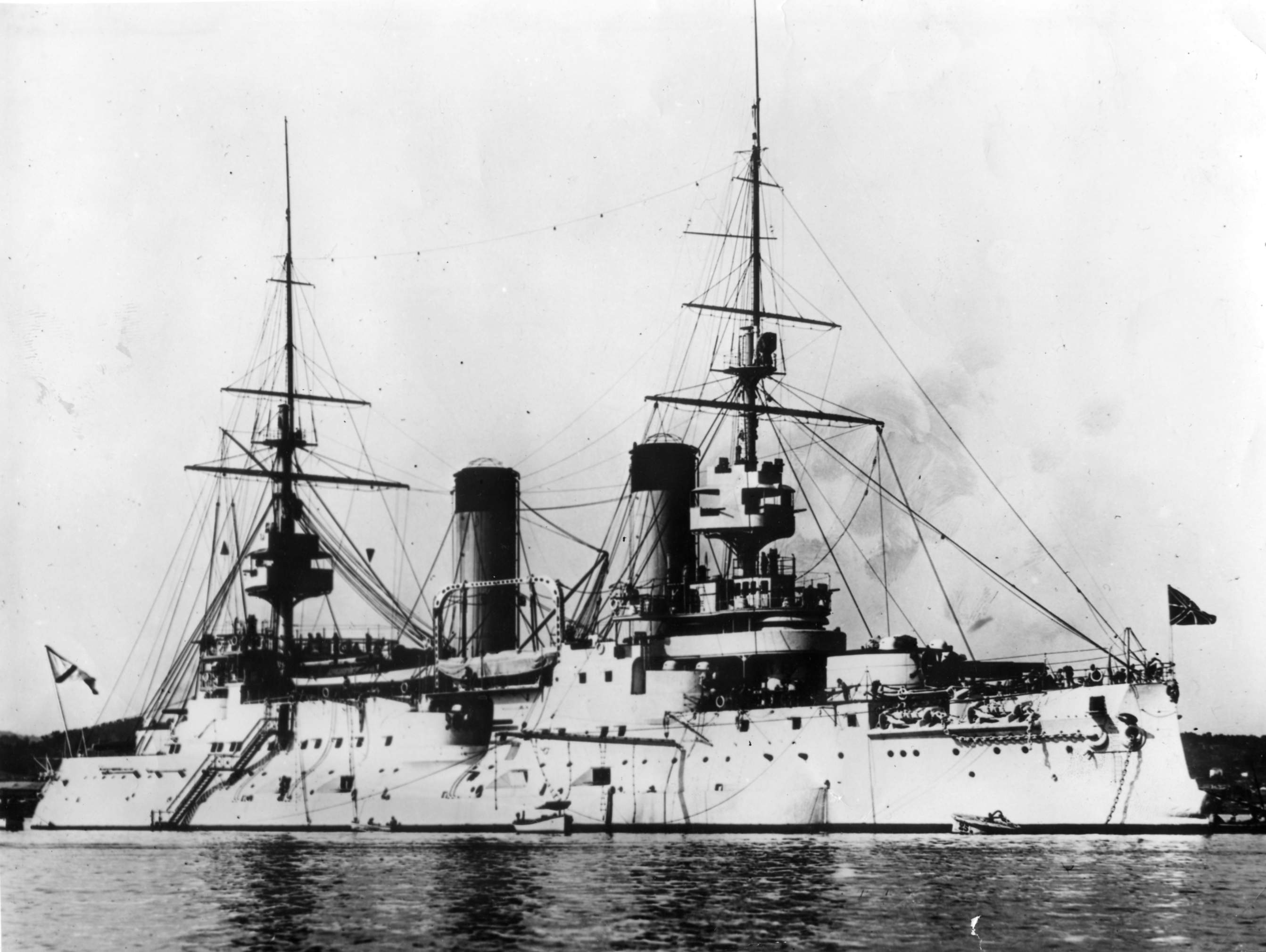 Imperial Russian battleship Tsesarevich at France, 1903.